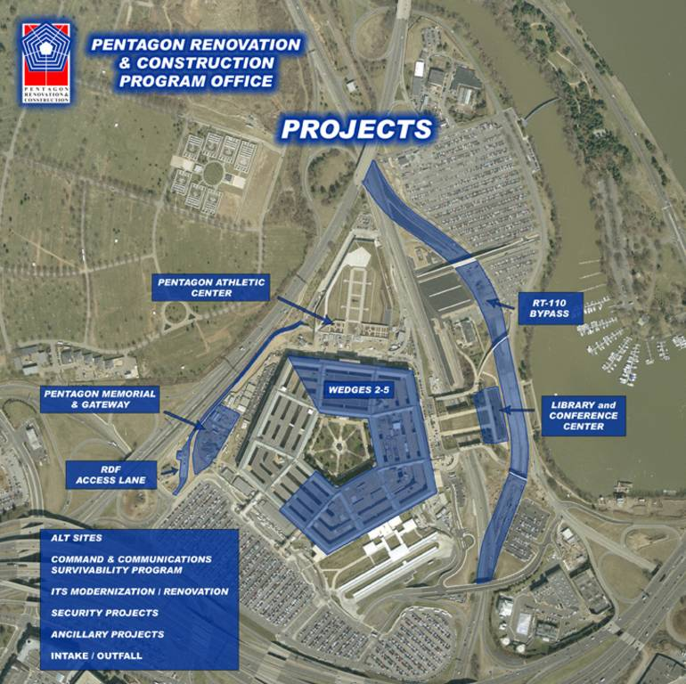 A composite aerial view showing ongoing renovations to the Pentagon. source: [1]